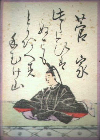 A portrait of Kan-ke; illustration from an uta-garuta playing card for Hyakunin Isshu, created in the Edo period.